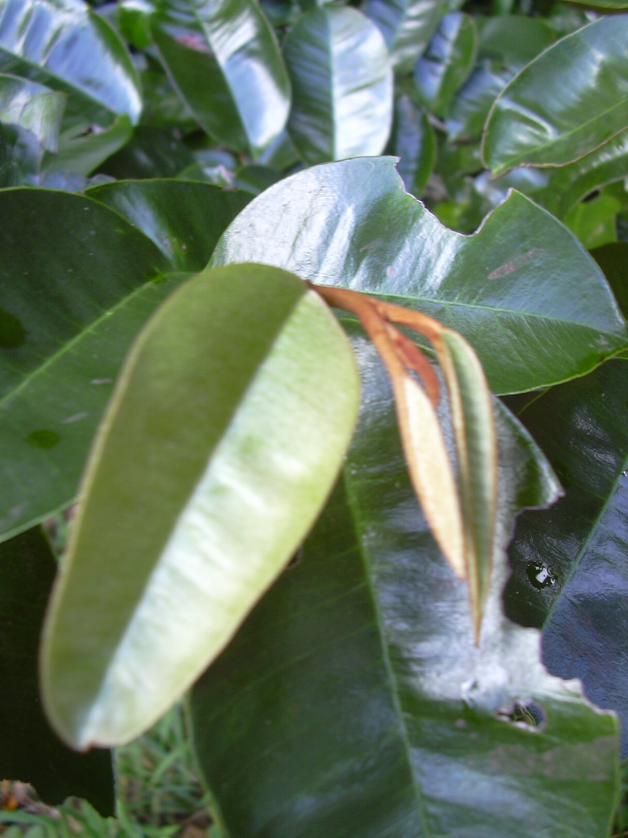 Chrysophyllum oliviforme (leaves). Location: Maui, Haiku